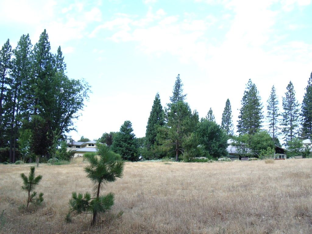 View of top of main buildings of the Expanding Light Retreat at Ananda Village. Nevada City, CA 95959 [USA]